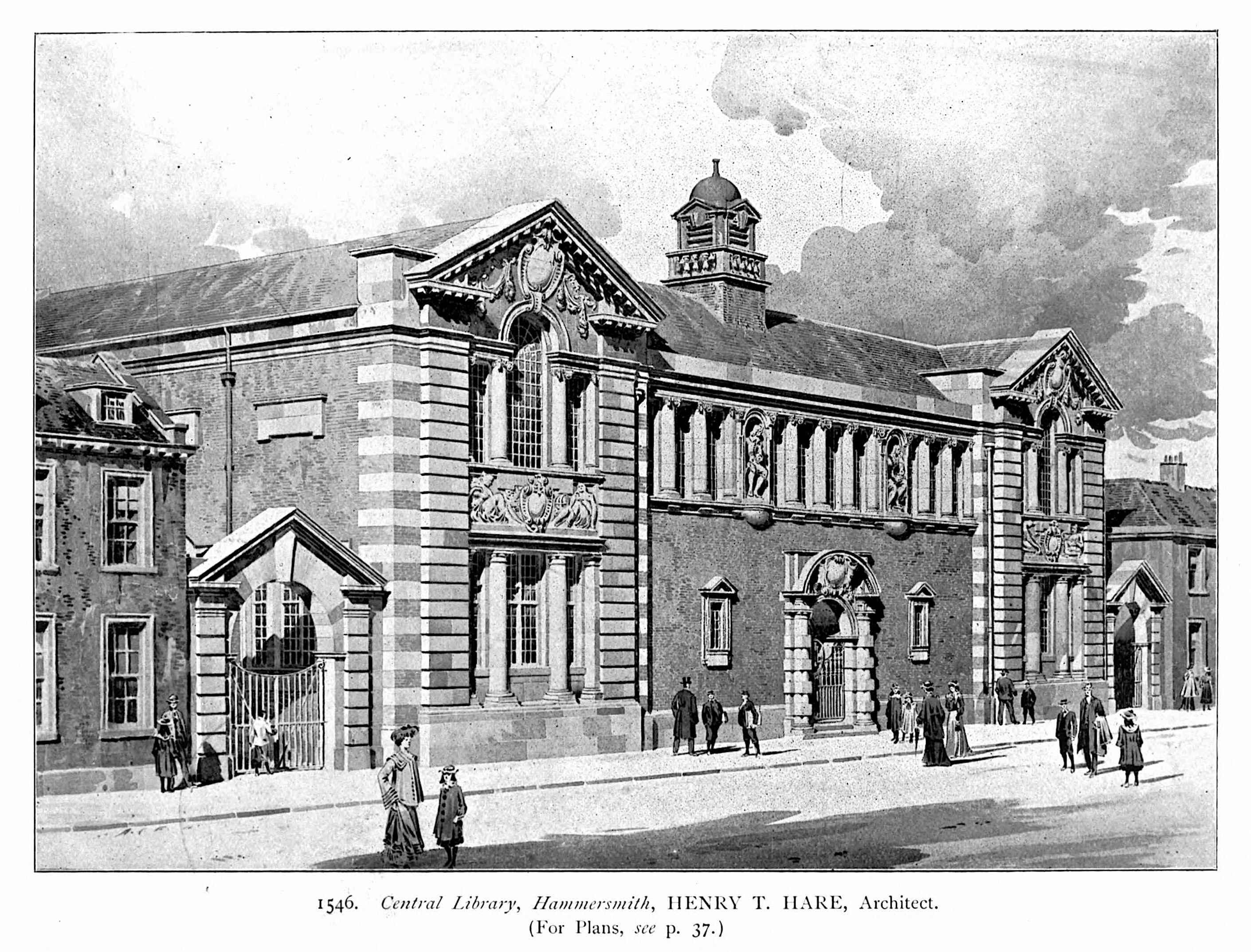 Perspective drawing of the Hammersmith Library.